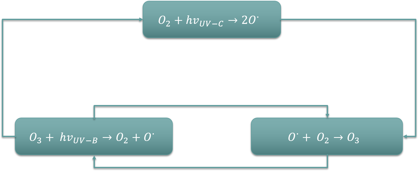 Chapman's cycle